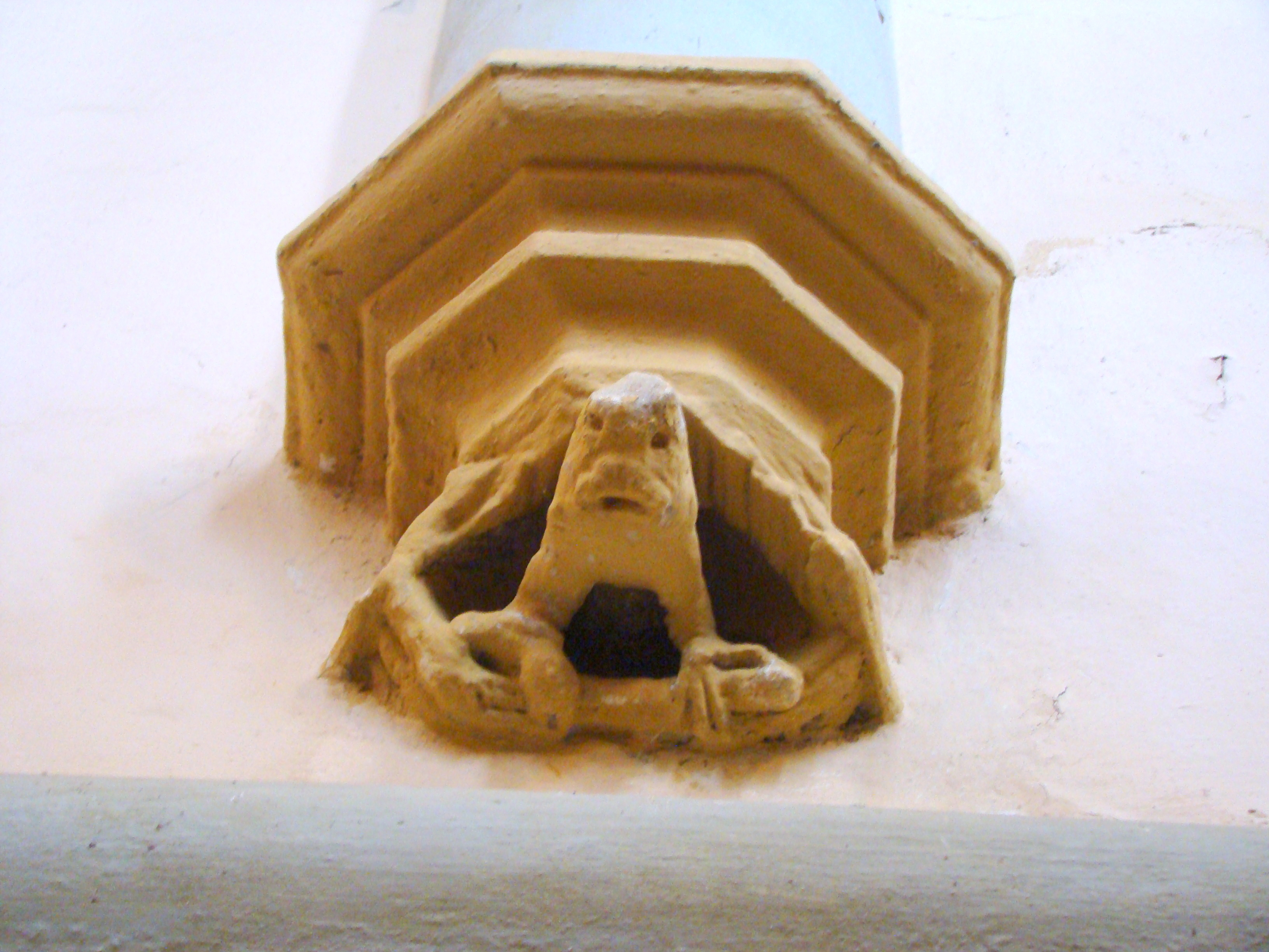 Lutheran church in Feldioara, Brașov County, Romania